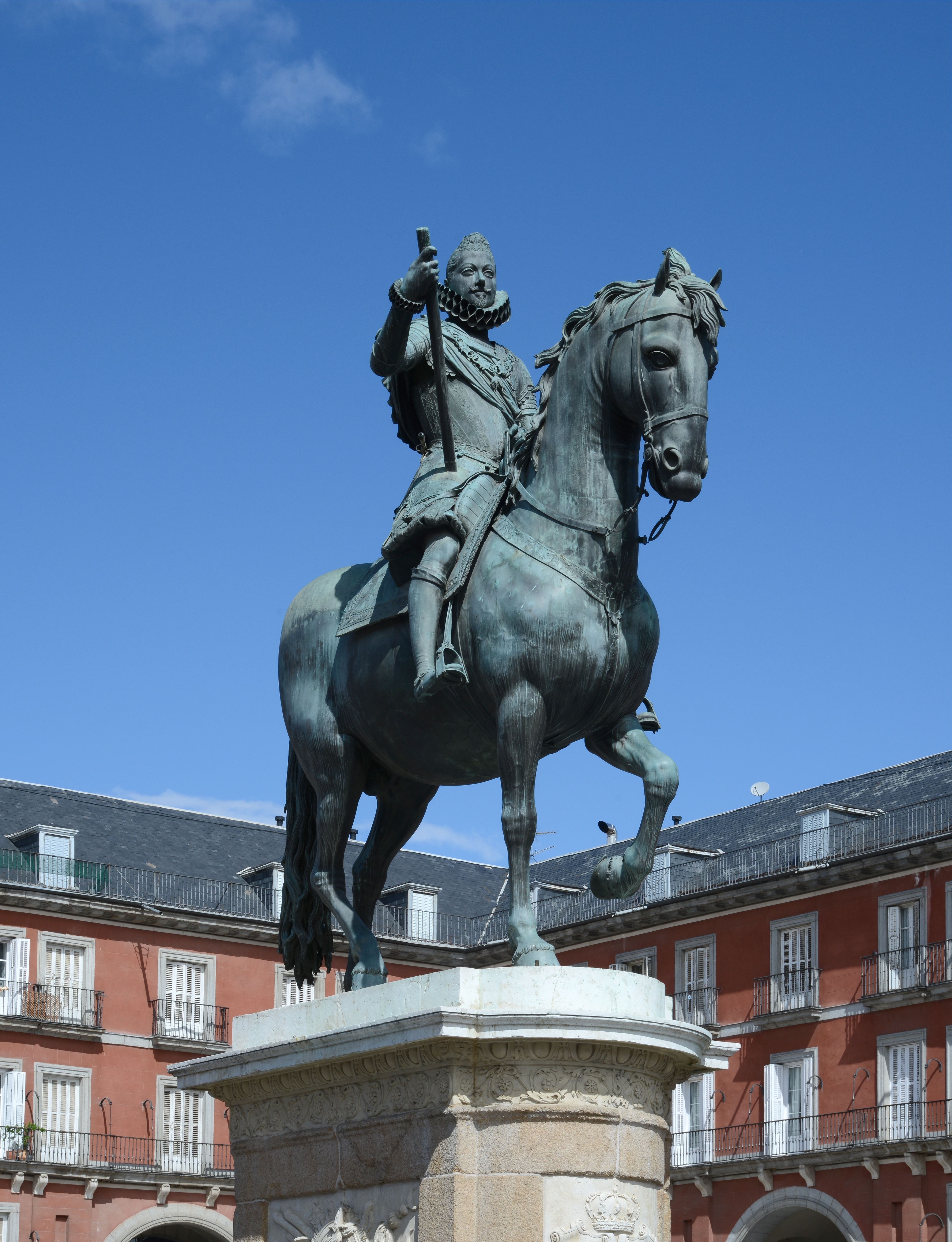 Madrid, equestrian statue of Filipe III in Plaza Mayor